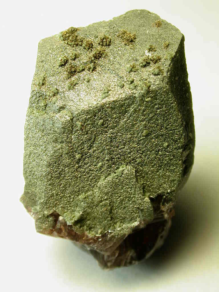 Chamosite Locality: Puiva (Pouyva) Mount, Saranpaul, Khanty-Mansi (Khanty Mansiysk) Okrug, Tyumenskaya Oblast, Prepolar Ural, Western-Siberian Region, Russia Original description: A 3.6 by 2.2 cms of Axinite-Fe covered on both sides by greenish microcrystals of Chamosite.